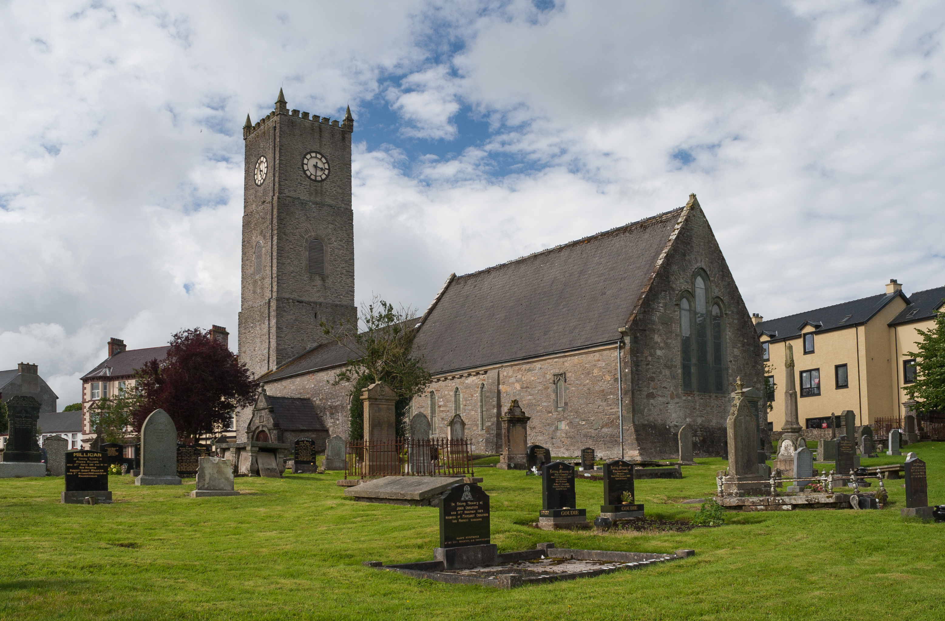 Cathedral as seen from south-east.